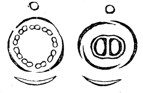 Diagram of flowers of Mercurialis annua (Euphorbiaceae), male (left) and female (right) flower